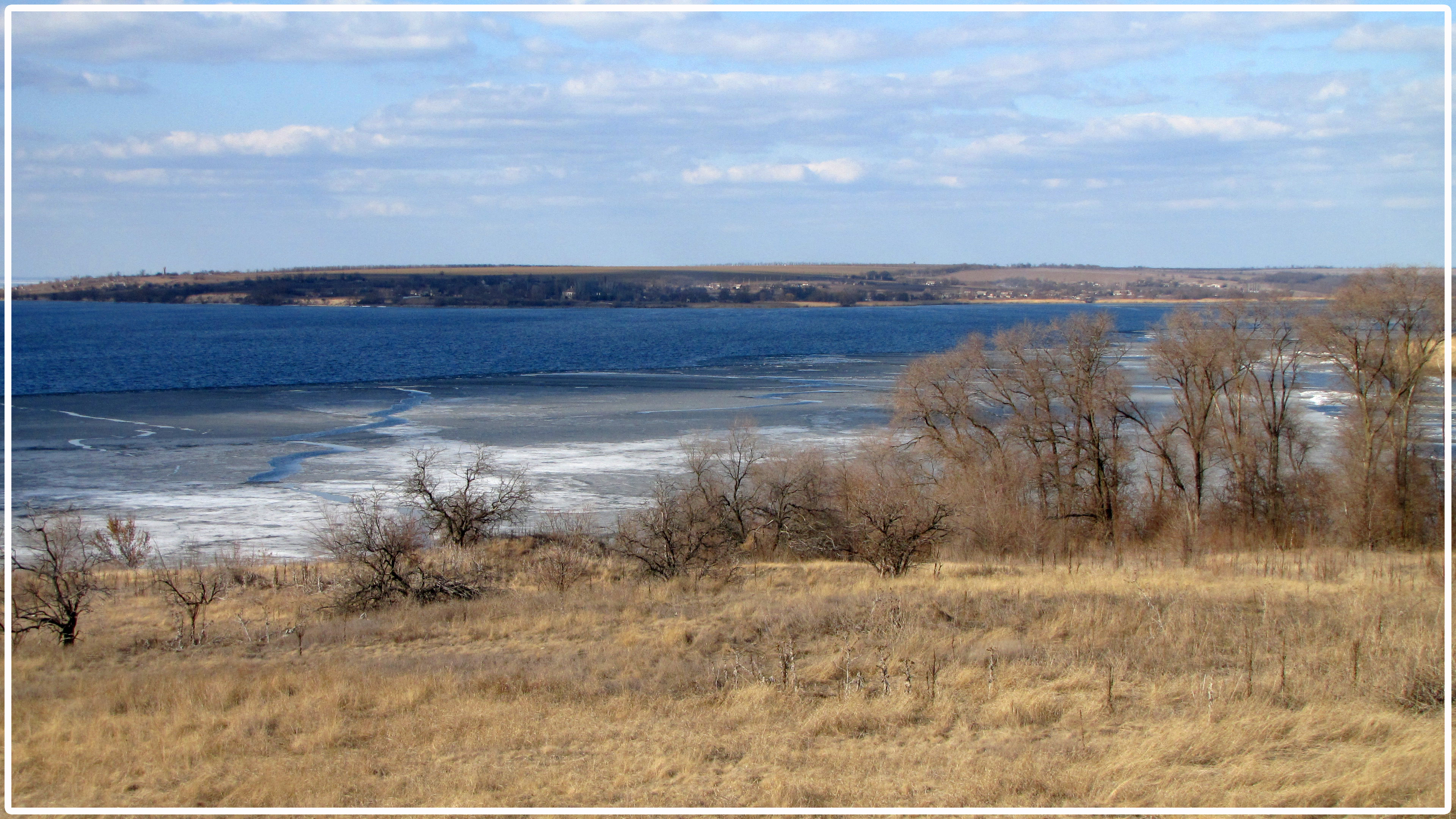 View of the village of Nizhnii Rogachik from the opposite shore, The mouth Nizhnerogachinsky Liman